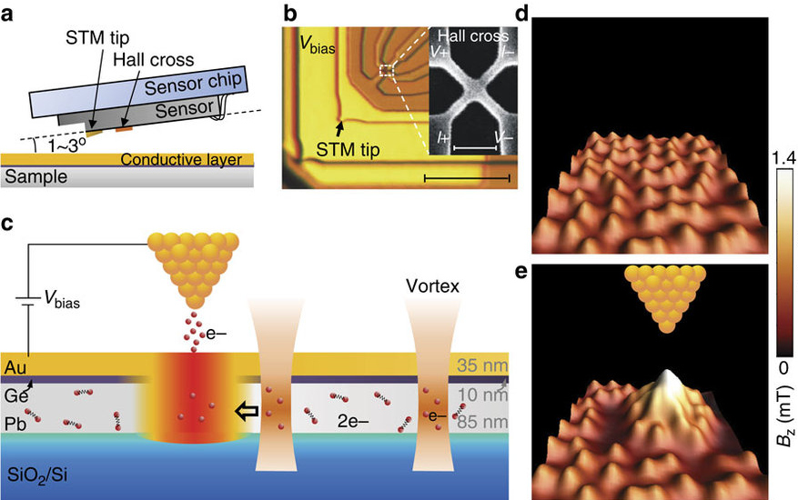 (a) Schematic view of the scanning Hall probe microscopy (SHPM). A scanning tunnelling microscope (STM) tip is assembled together with a Hall cross to make a sensor, which is aligned at a small angle (1–3°) to the sample surface. (b) An optical image of the Hall sensor. A scanning electron microscope (SEM) image of the Hall cross is shown in the inset. The longer (shorter) scale bar corresponds to 20 (1) μm. (c) Schematic representation of the local heating effect by using the STM tip. The area close to the tip is heated up by the tunnelling current while the insulating Ge layer and the superconducting Pb layer are also warmed up due to thermal transfer. Superconductivity is suppressed in a localized region where it is energetically favourable to place vortices. (d) SHPM image of a vortex lattice observed after FC at H=3.74 × 102 A m−1 from above Tc down to T=4.2 K. (e) SHPM image after 5 s of tunnelling at bias voltage of 0.5 V and tunnelling current of 0.5 nA, and then lifting up the tip for Hall probe imaging. A vortex cluster forms at the tip position due to the local quench of the hot spot.